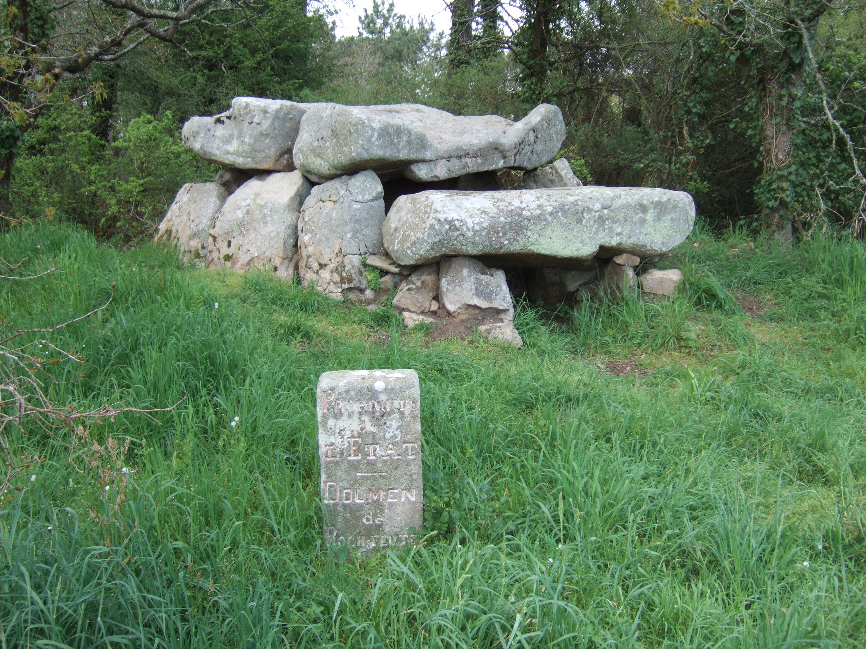 Dolmen near Carnac, France, known as "Roch-Feutet" (inscription in photo), or "er-Roc'h-Feutet" (tourist map). Taken by me.